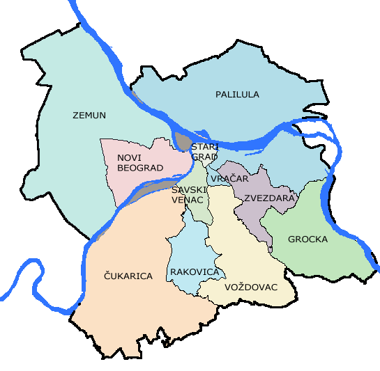 Districts (municipalities) of Belgrade.